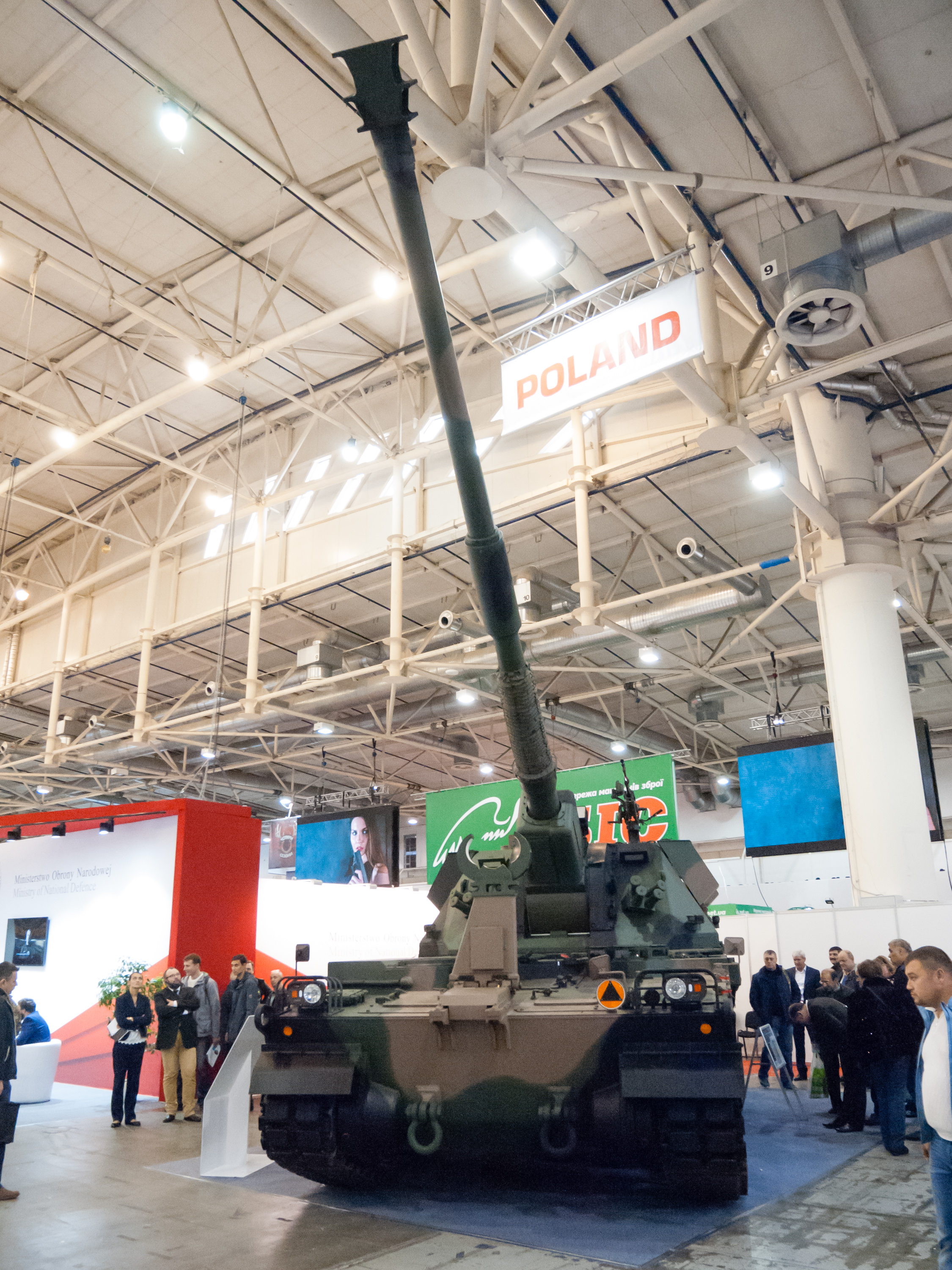 AHS Krab in Kyiv (Poland)